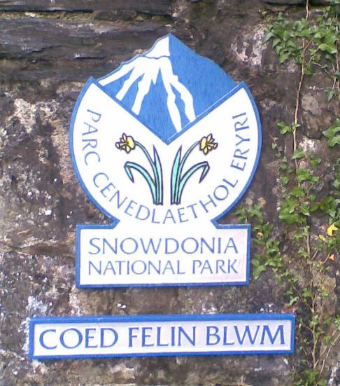 The sign at Coed Felin Blwm by the Grey Mare's Tail, Llanrwst